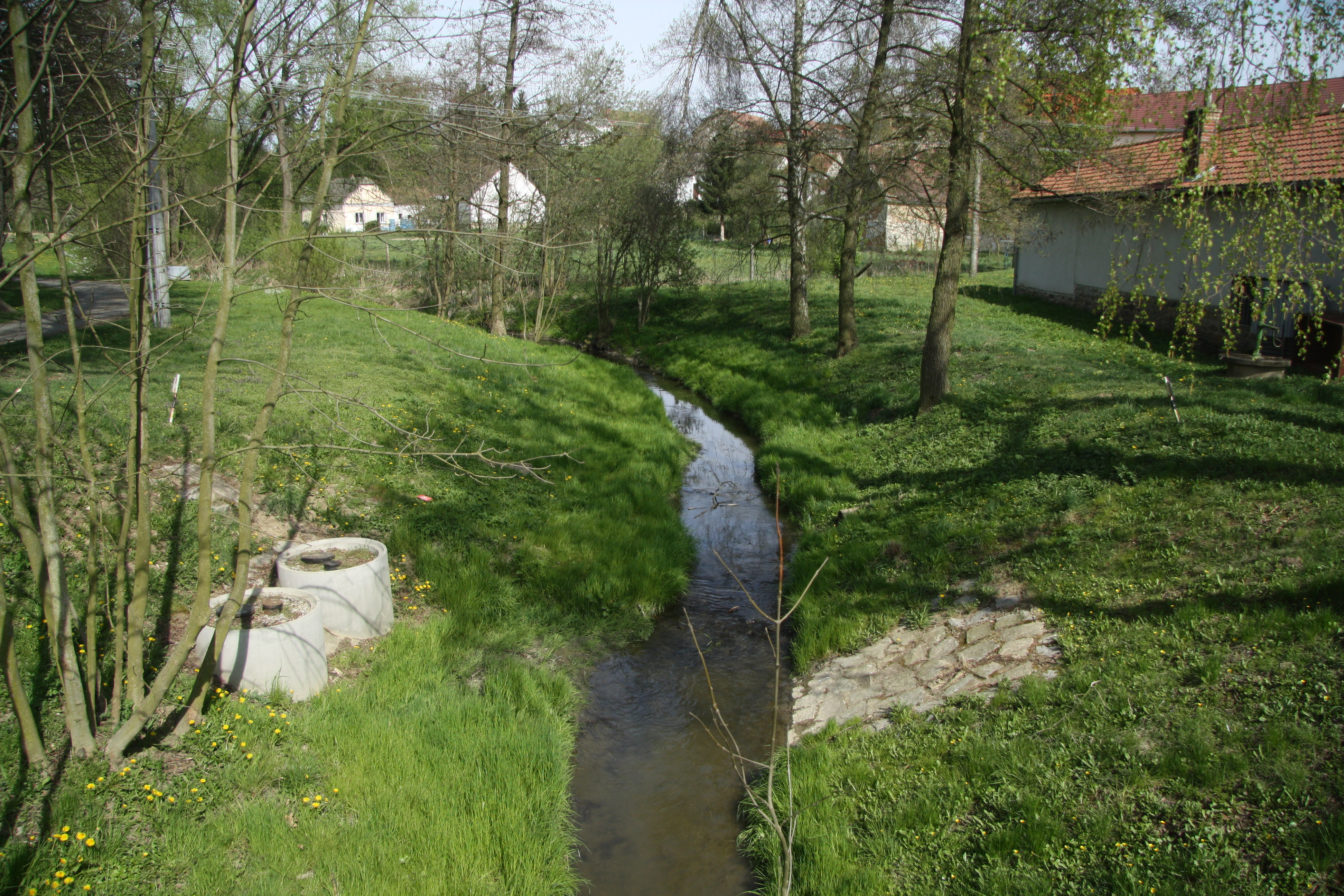 Štěpánovický stream in Štěpánovice, Výčapy, Třebíč District.